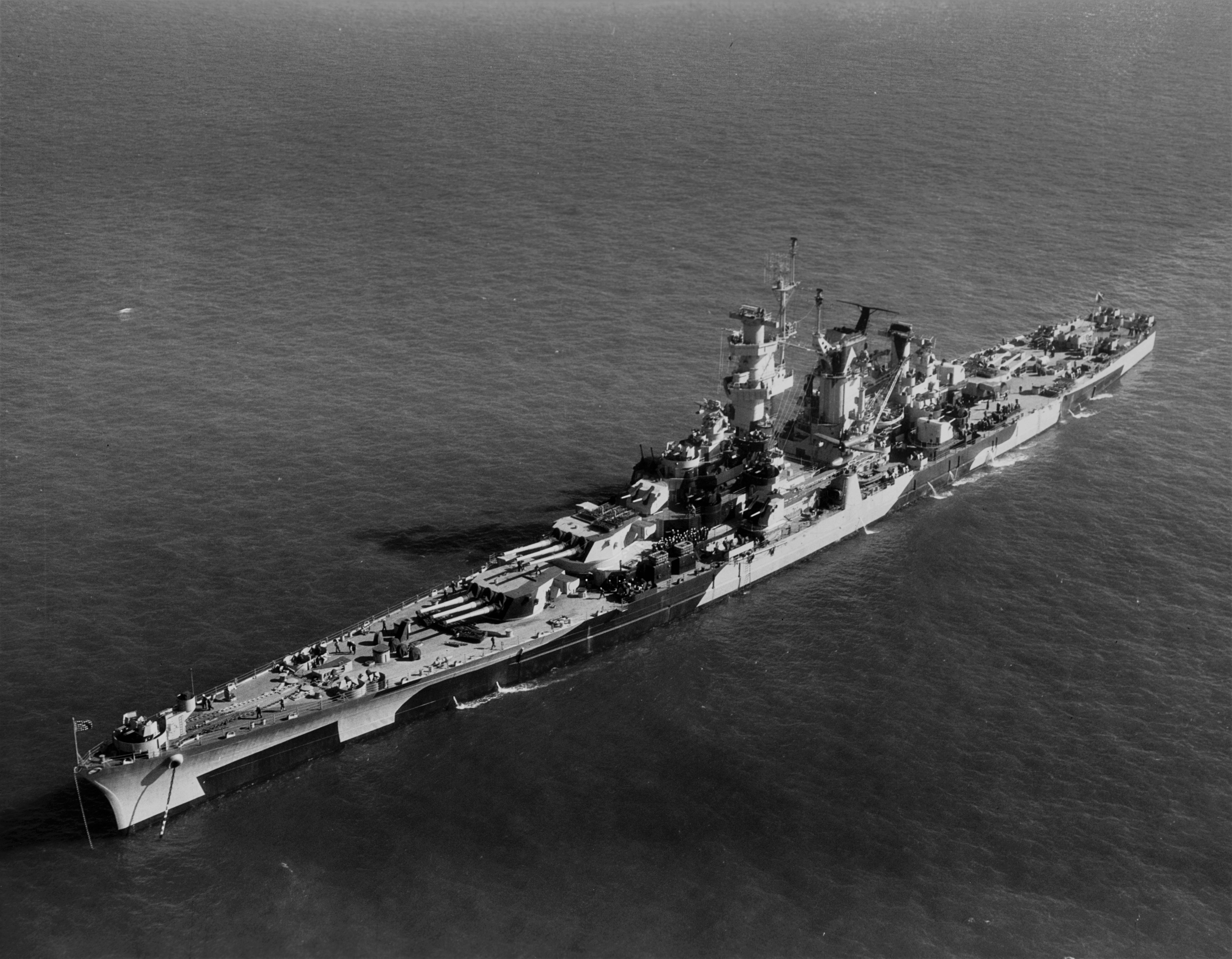 The U.S. Navy battlecruiser USS Alaska (CB-1) photographed from the air on 13 November 1944.